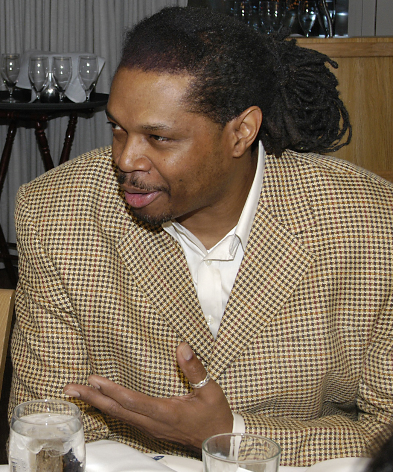 Former U.S. Olympic basketball player Sam Perkins (right) chats with Army Capt. Scott Smiley before the Washington Wizards and Miami Heat basketball game in Washington on Dec. 15. The NBA hosted several wounded warriors, including Smiley, at the game as part of "Hoops for Troops," an America Supports You program connecting basketball players with servicemembers and their family members around the world. This file has been extracted from another file: Sam Perkins Hoops for Troops.jpg